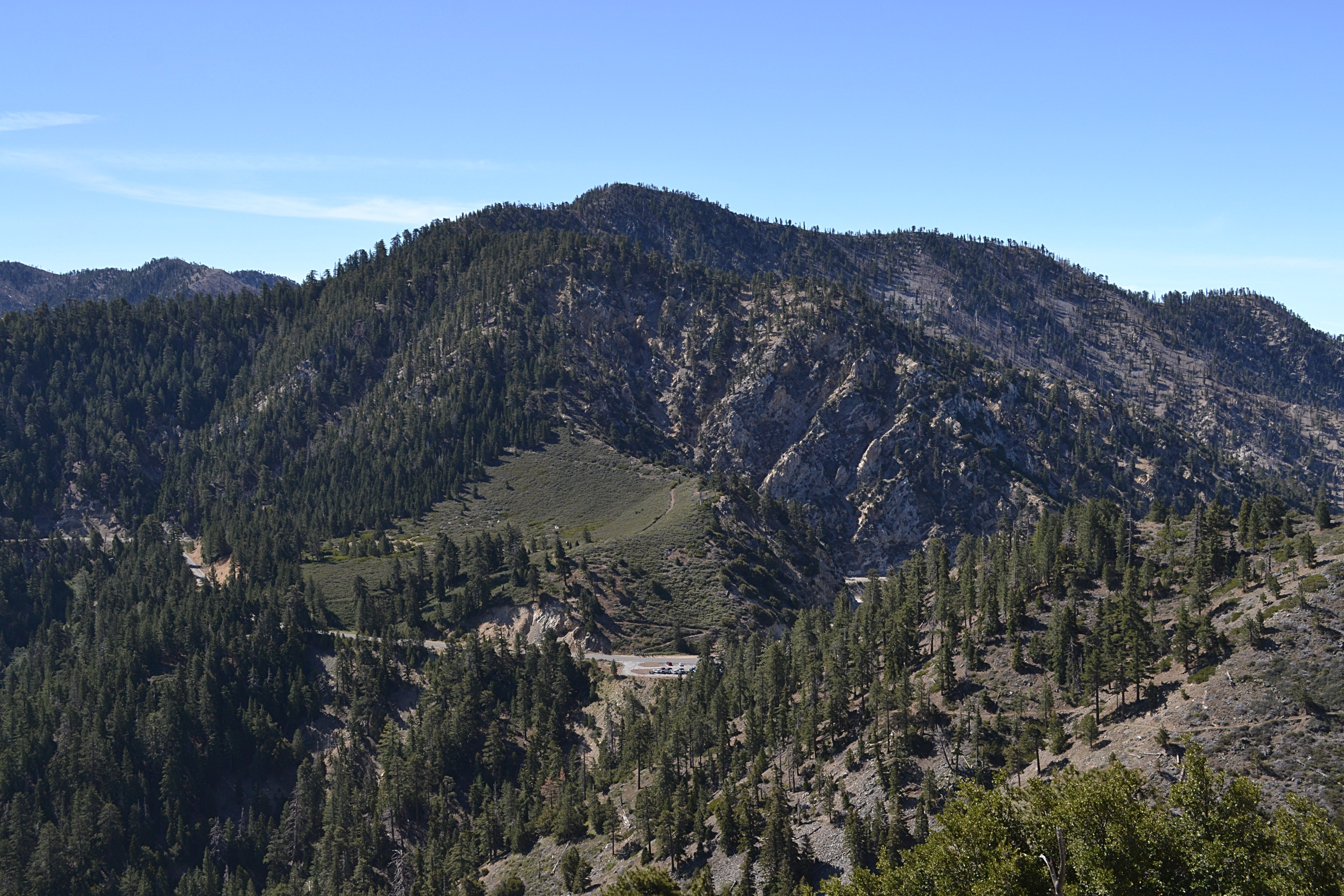 Mount Islip from the trail to Mount Williams